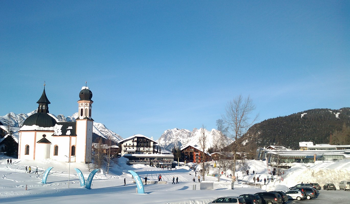 Seefeld, Tirol: Seekirchl, Olympia XC track, congress centre, background: Karwendelspitzmassiv